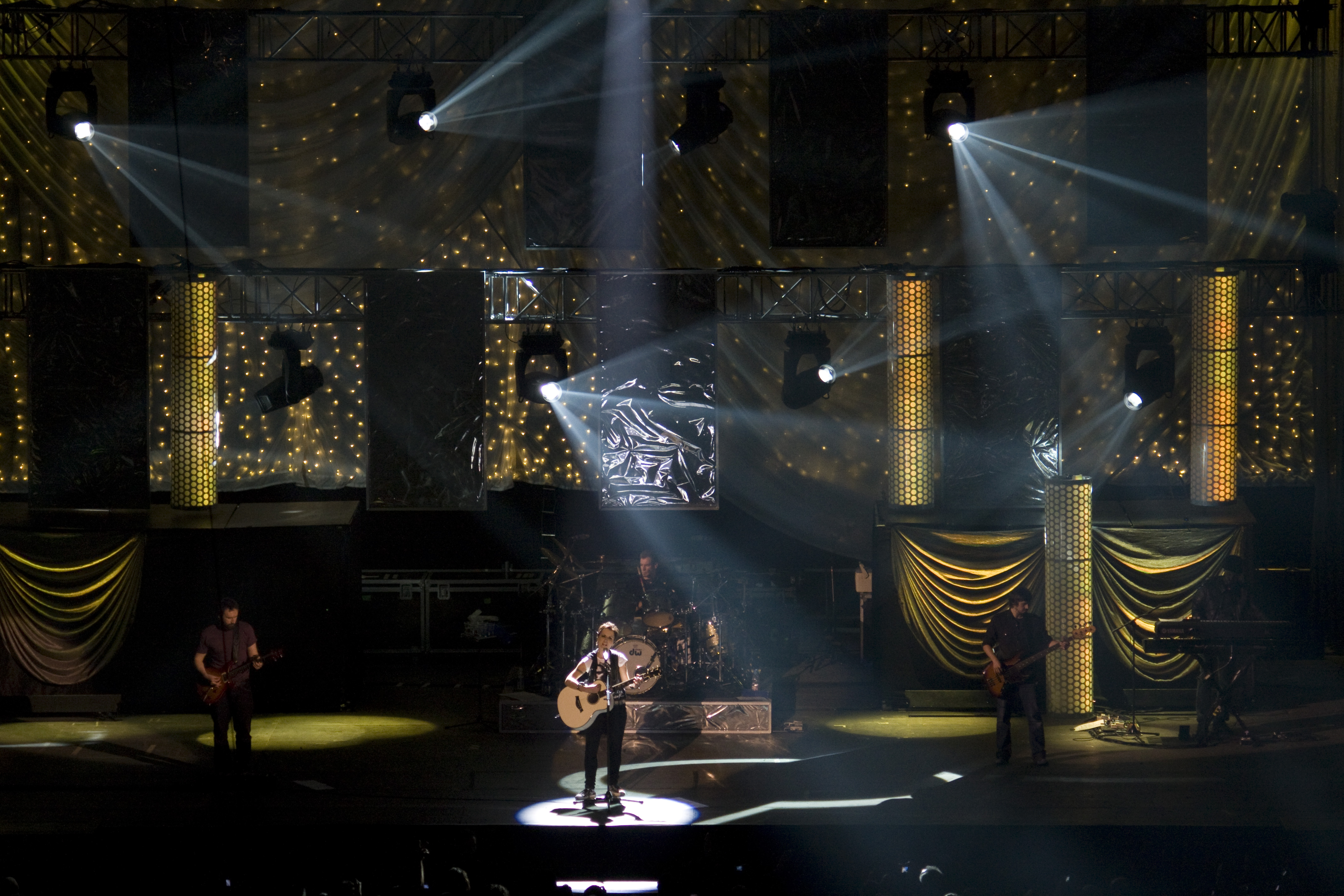 The Cranberries live in Barcelona on 13 March 2010